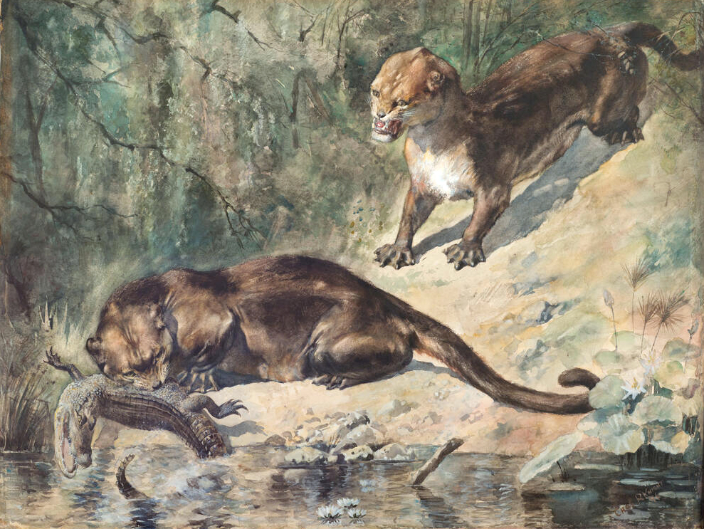 Patriofelis